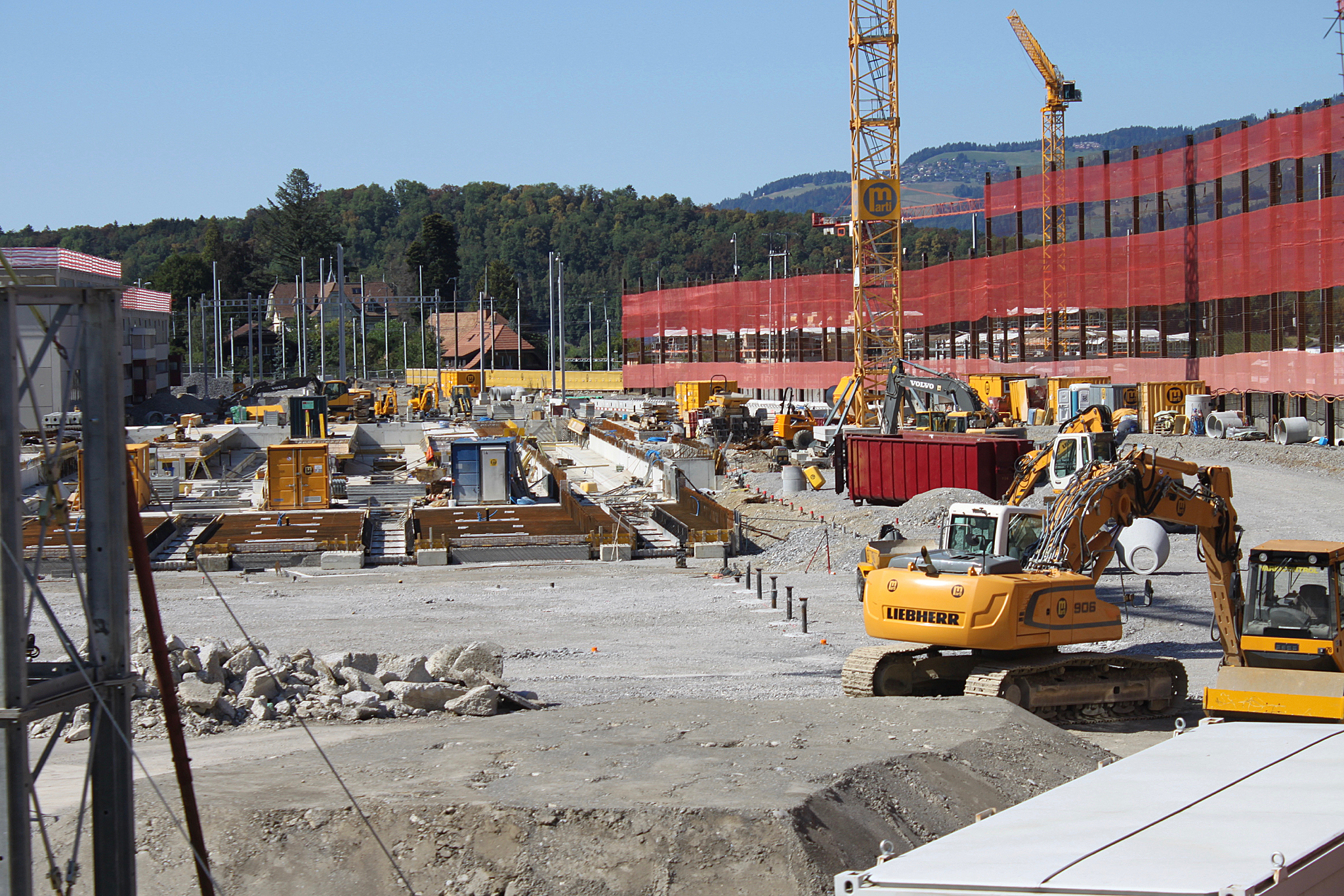 Construction site at Spiez railway station